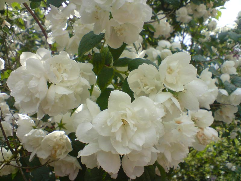 Philadelphus x virginalis 'Schneesturm' (horticultural hybrid) in Kew Gardens, England.